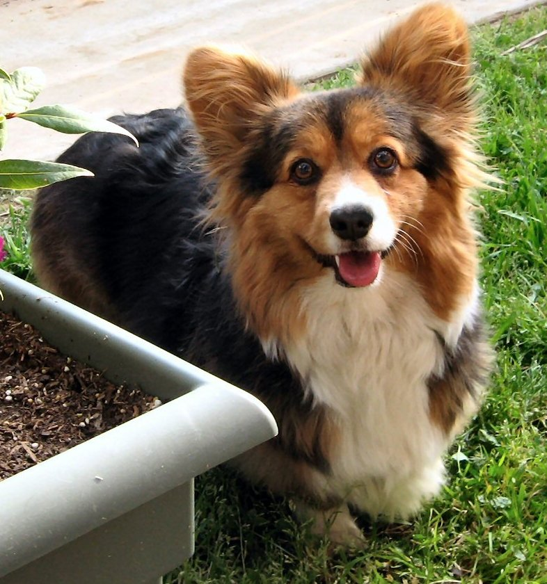 Fluffy Pembroke Welsh corgi